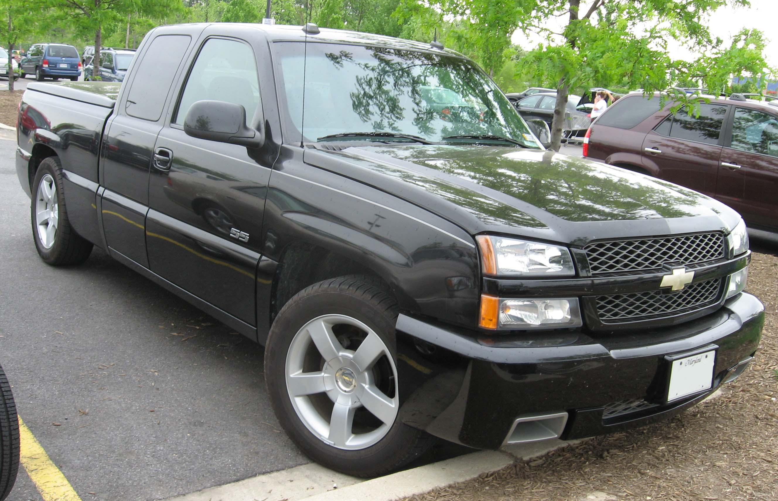 2003-2005 Chevrolet Silverado photographed in USA.